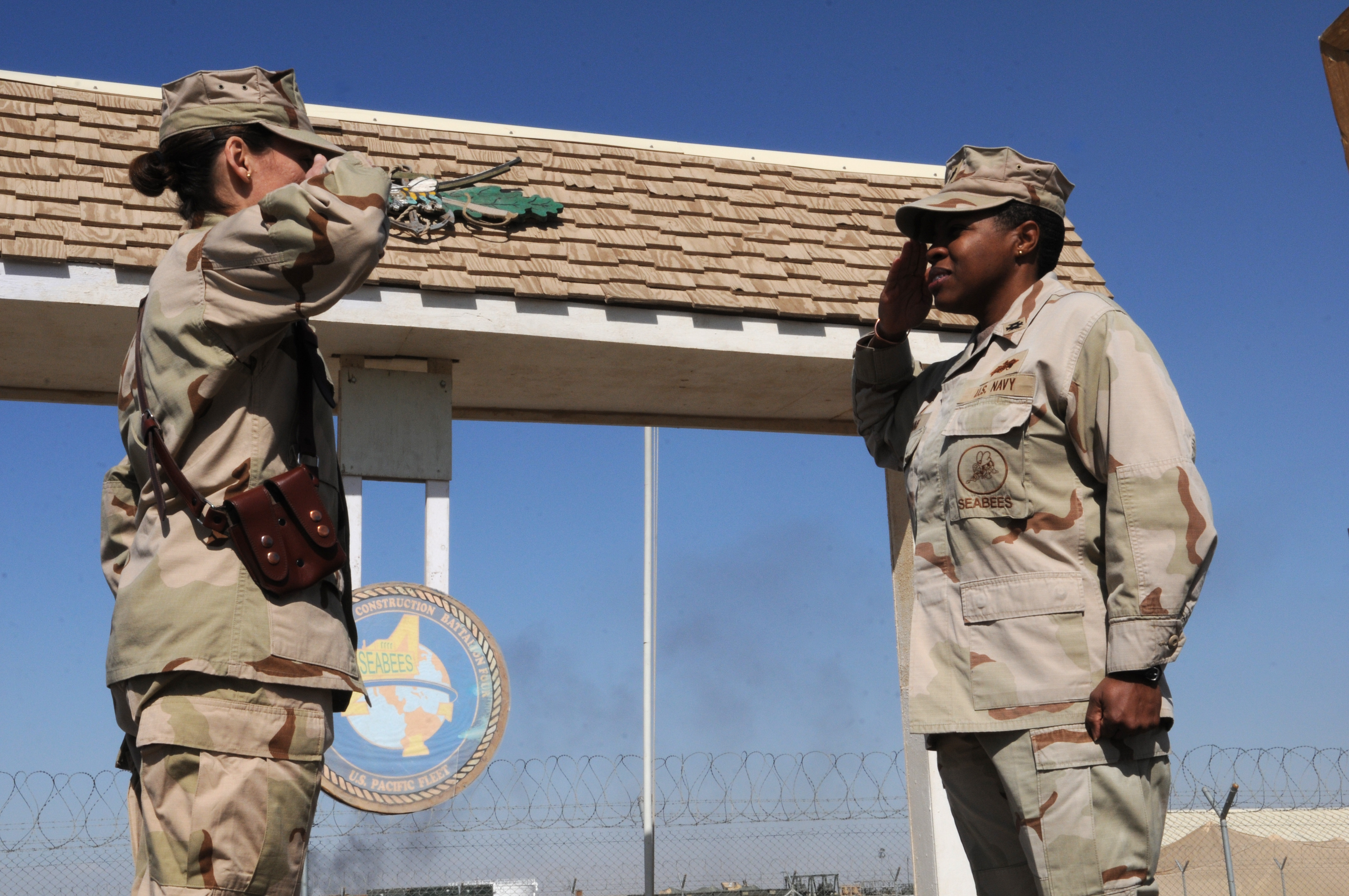 CAMP LEATHERNECK, Afghanistan (Feb. 13, 2012) Commander Lore Aguayo, commanding officer of Naval Mobile Construction Battalion (NMCB) 11, relieves Cmdr. La Tany Simms, commanding officer of NMCB-4. (U.S. Navy photo by Mass Communication Specialist 1st Class Jonathan Carmichael/Released)